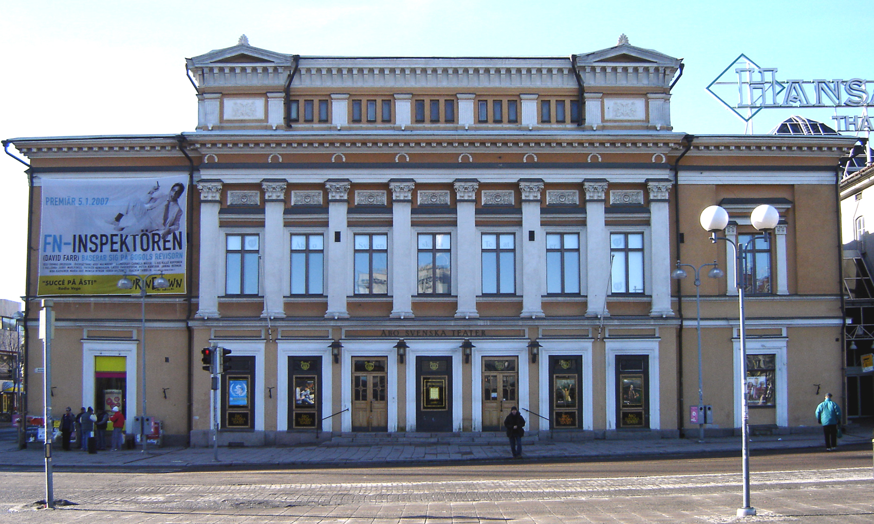 The facade of the Turku Swedish Theater in Turku, Finland. Completed in 1839. Architects: P. J. Gylich and Carl Ludvig Engel.